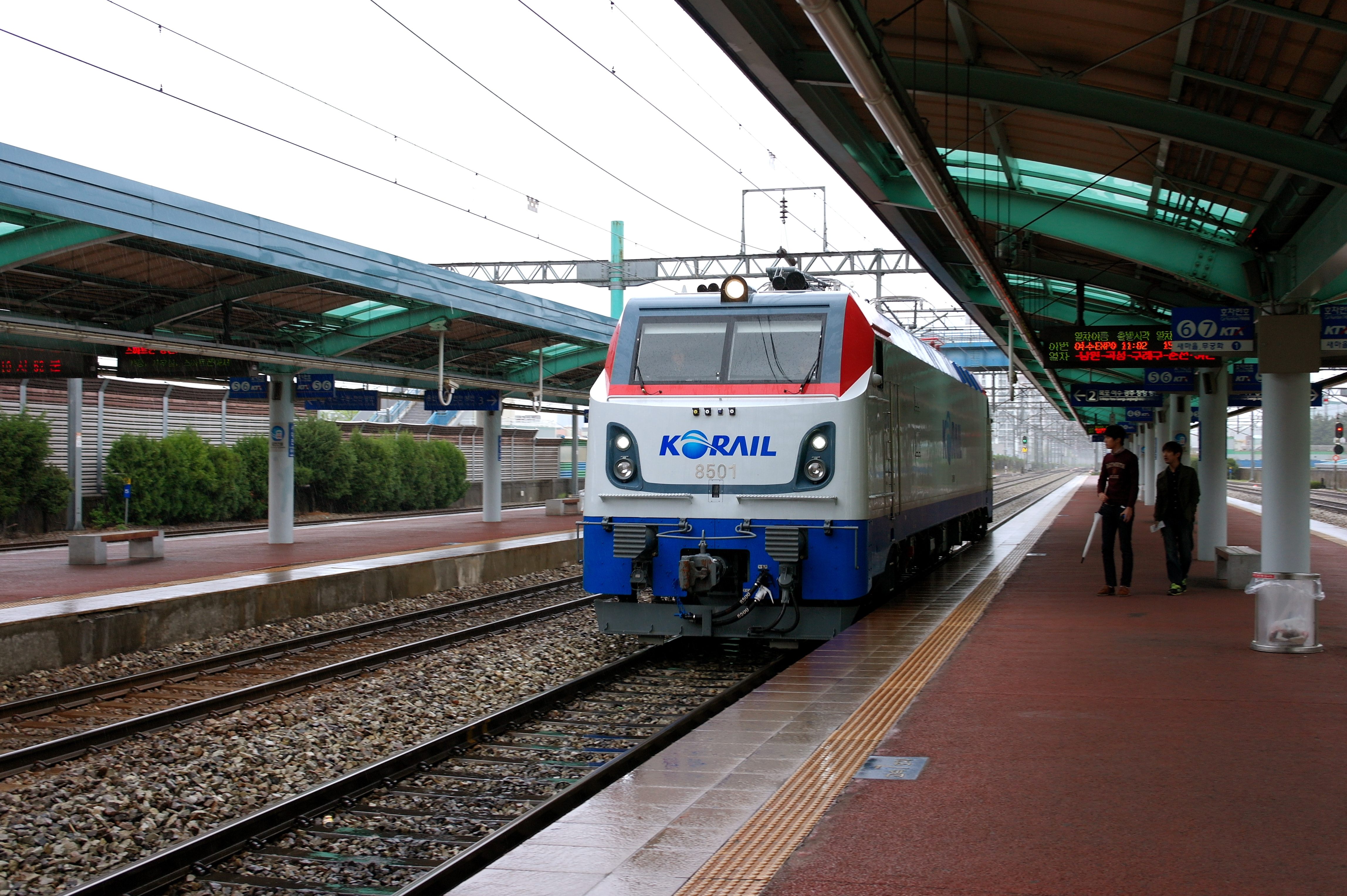 Korail electric locomotive 8501 (Seodaejeon Stn)